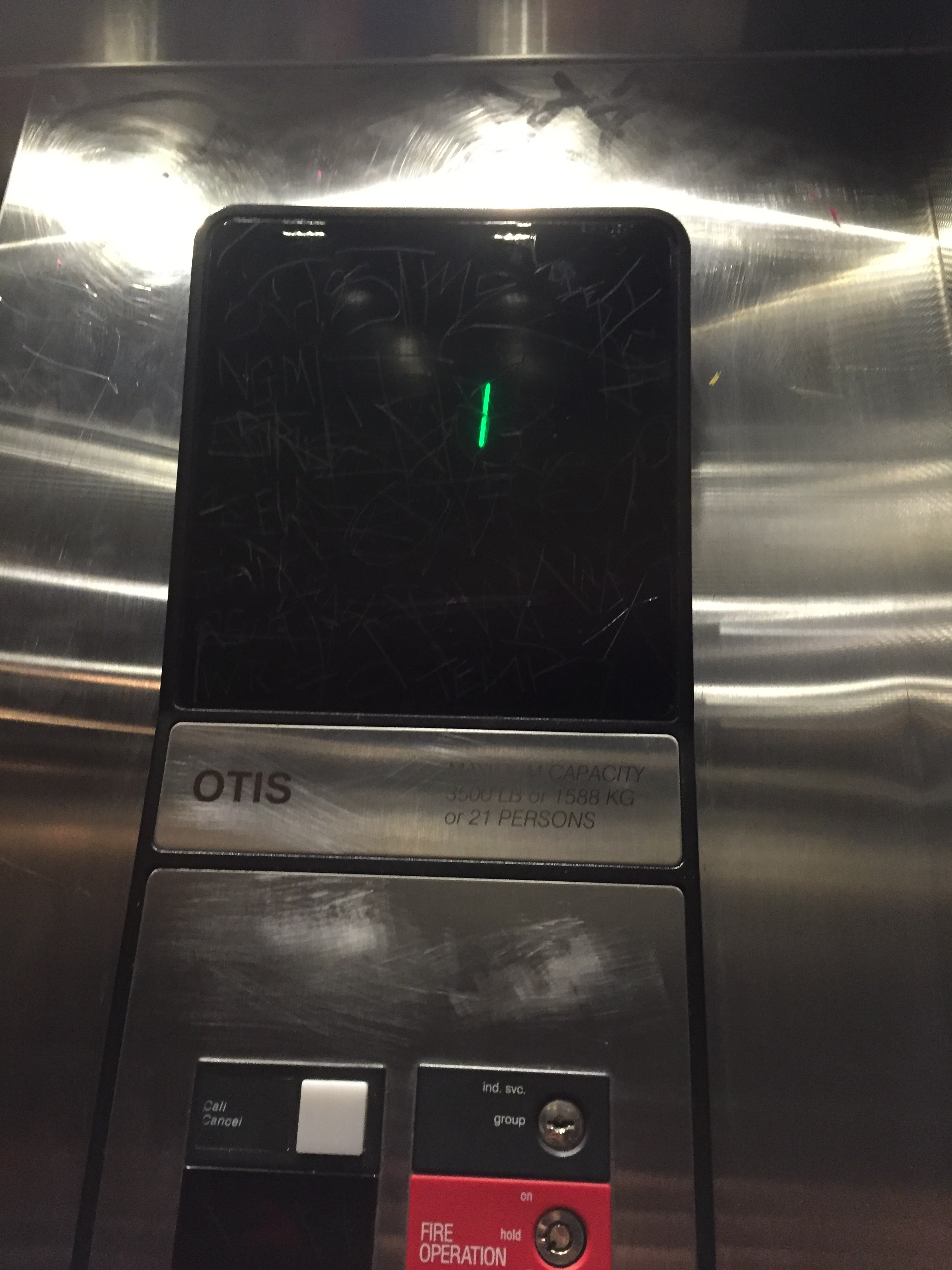 Scratch mark graffiti on an elevator position indicator at a strip mall